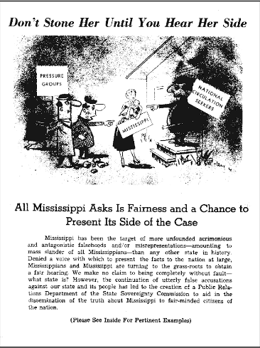 Cover of the pamphlet "Don't Stone Her until You Hear Her Side" the Mississippi State Sovereignty Commission pulished on 1956 to defend segragation.